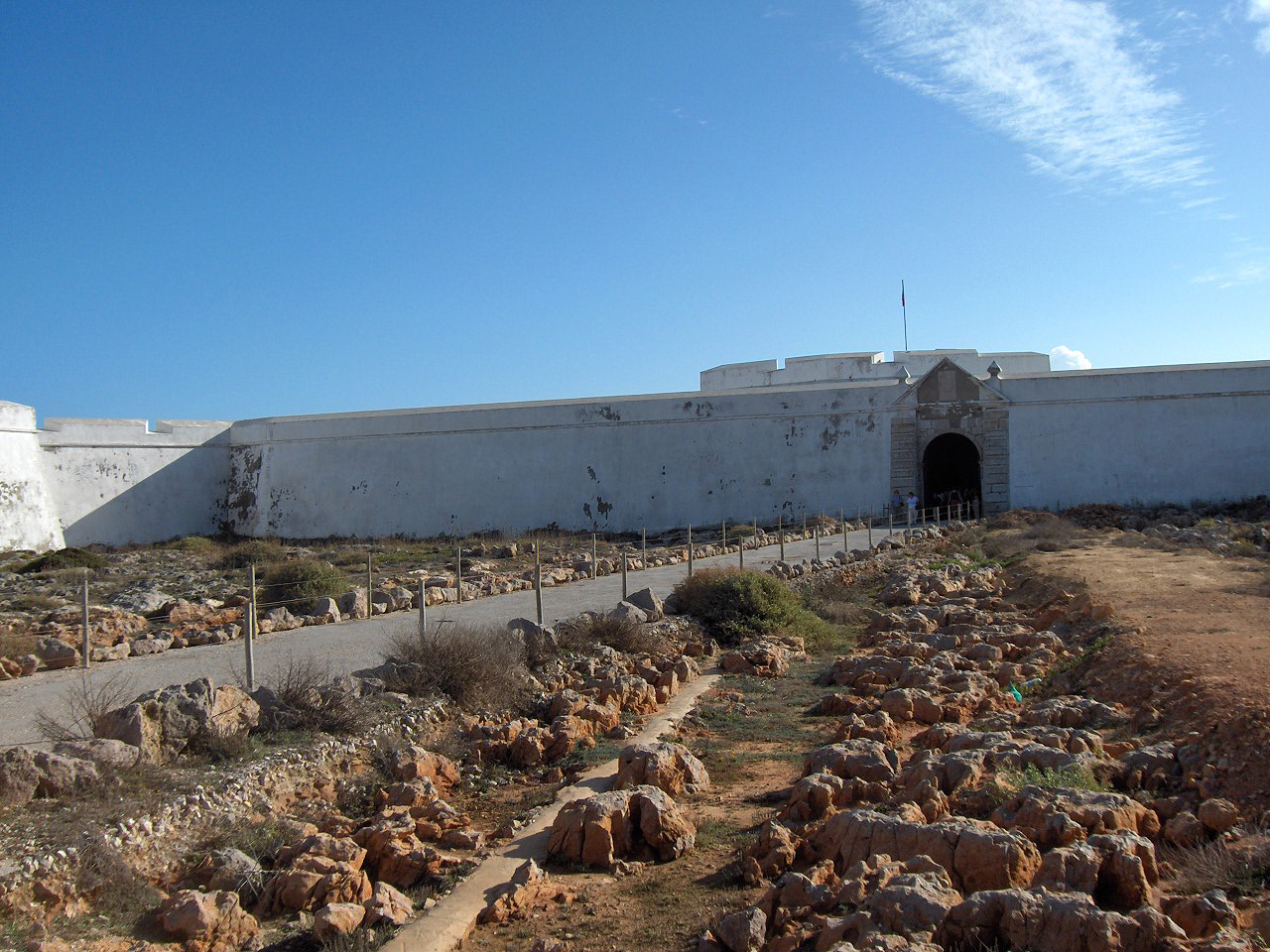 Entrance to the Fortress of Sagres; Sagres, Portugal.